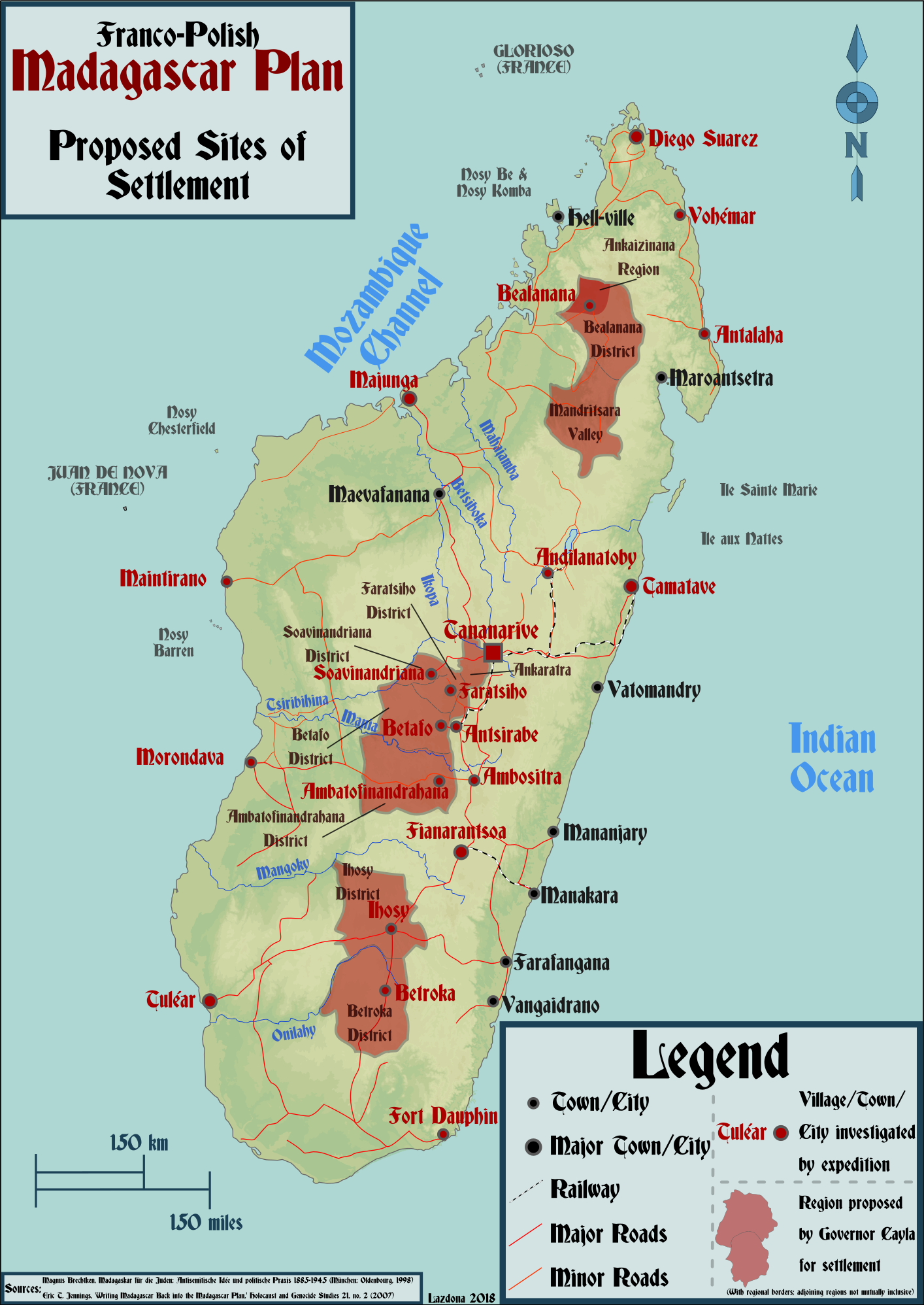 A map of Franco-Polish proposed sites for the resettlement of European Jews in Madagascar.